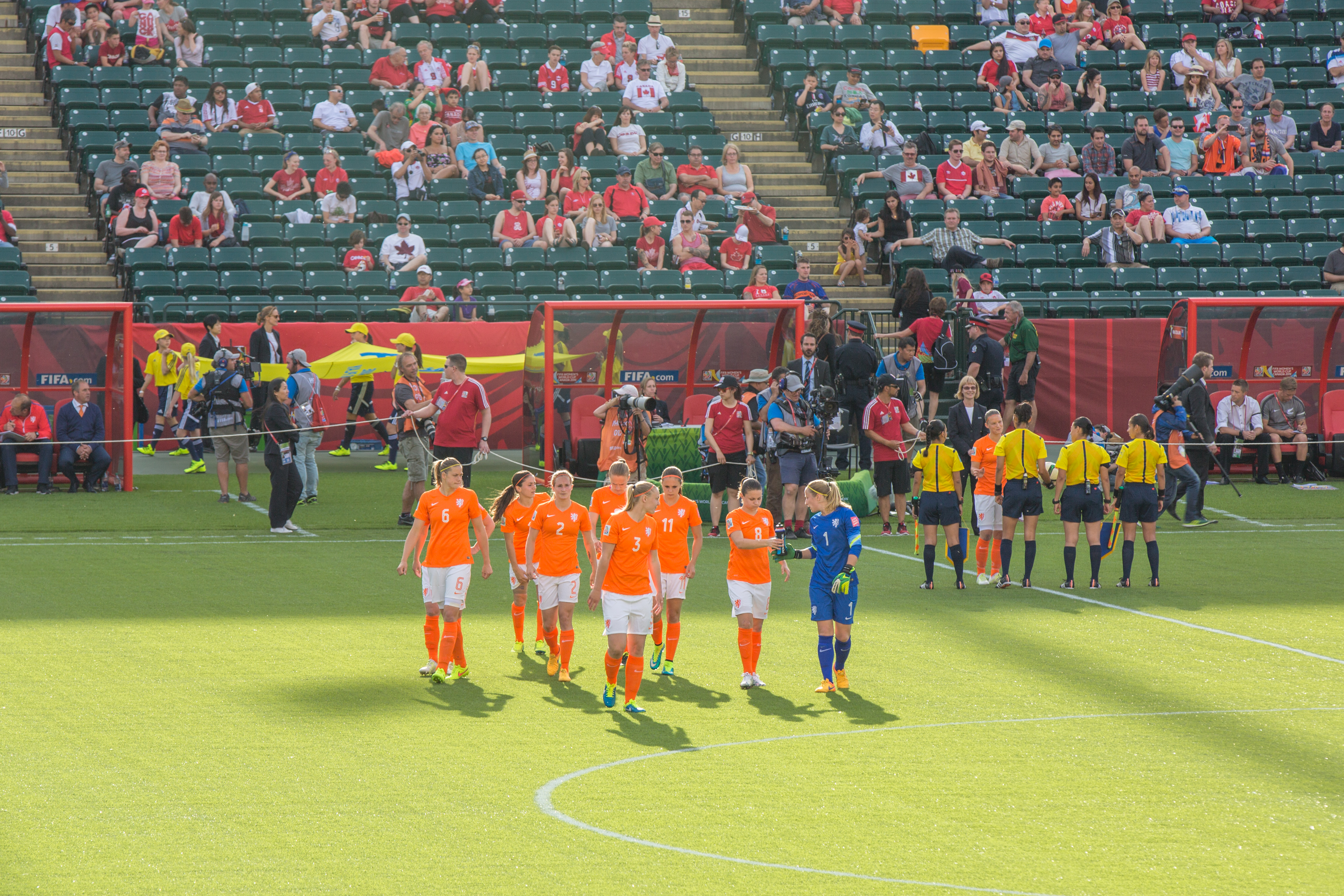 The 2015 FIFA Women's World Cup is the seventh FIFA Women's World Cup, the quadrennial international women's football world championship tournament. The tournament will be held from 6 June to 5 July 2015. New Zealand v. Netherlands Match Highlights